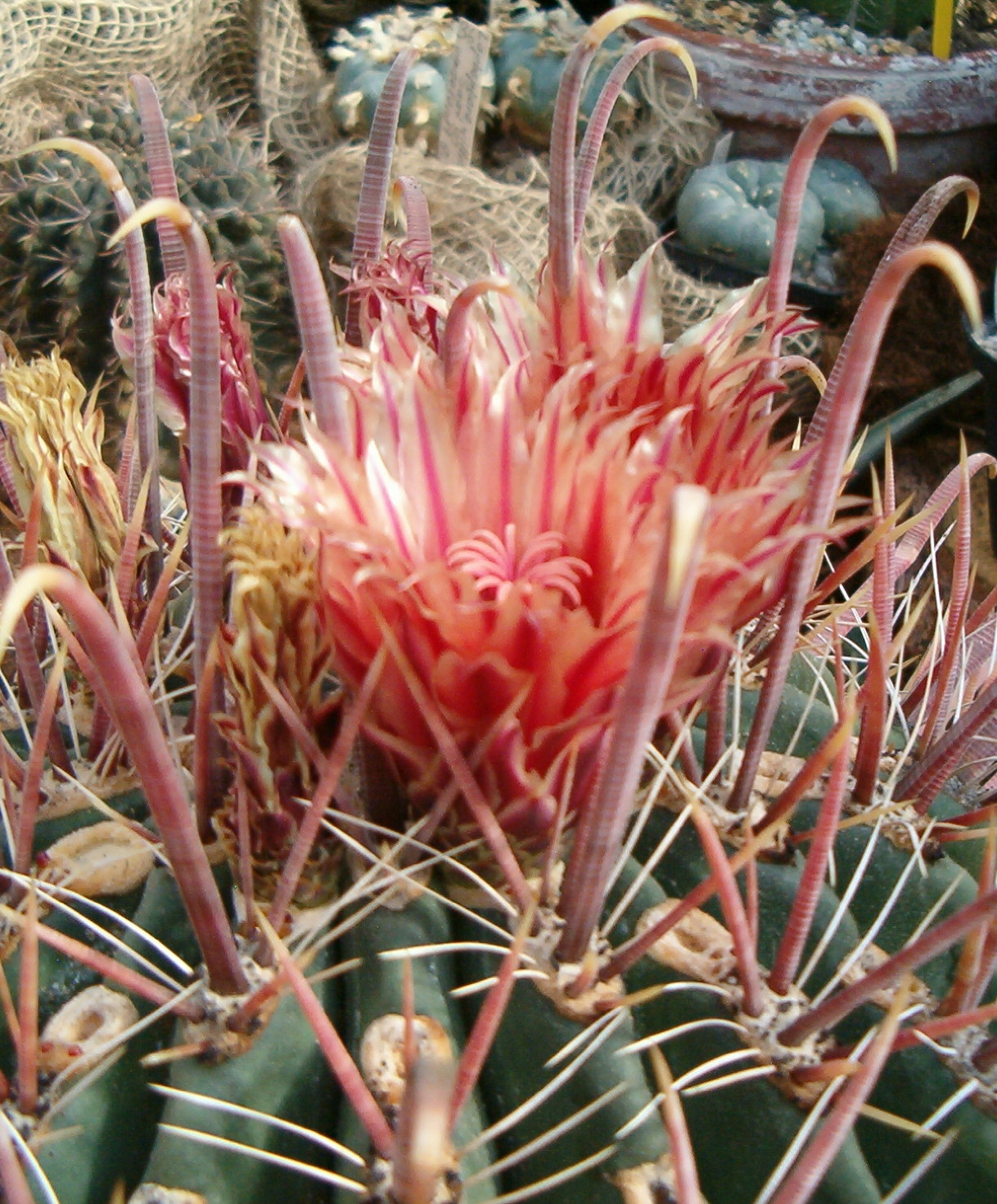 Habitus and Flowers Location: Botanical Gardens Berlin